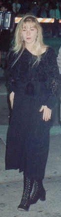 Christina Applegate and date face photographers outside the Governor's Ball following the 41st Annual Emmy Awards, 9/17/89